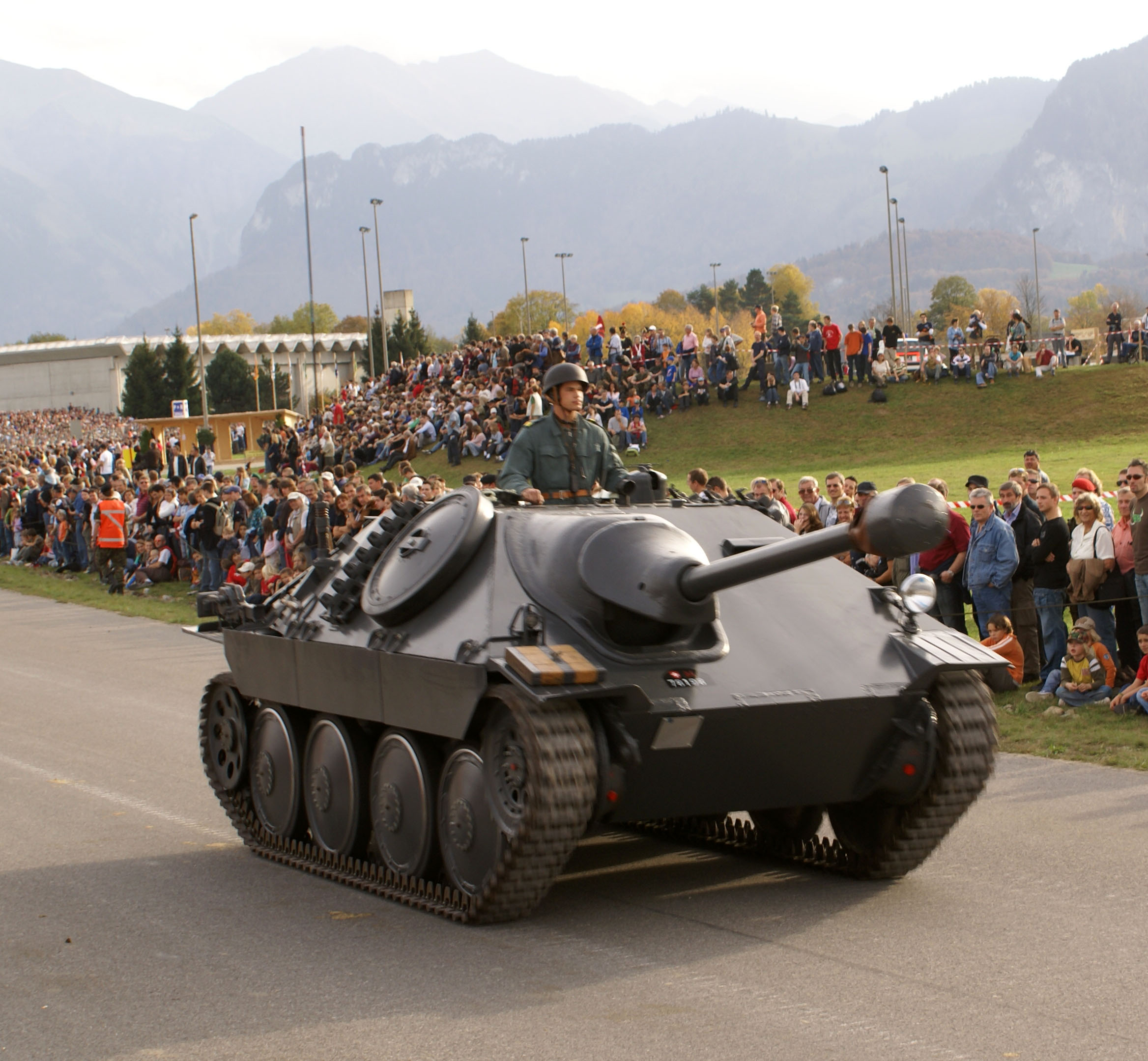 Swiss Army. Tank destroyer G 13, imported 1946-7, originally German Wehrmacht Jagdpanzer 38(t) "Hetzer". Participating in the "Steel Parade" of the 2006 Army Days, Thun.